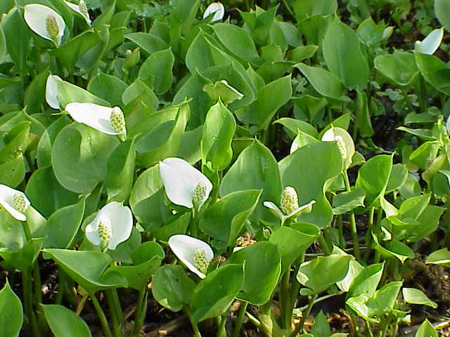 Species: Calla palustris Family: Araceae Image No. 3